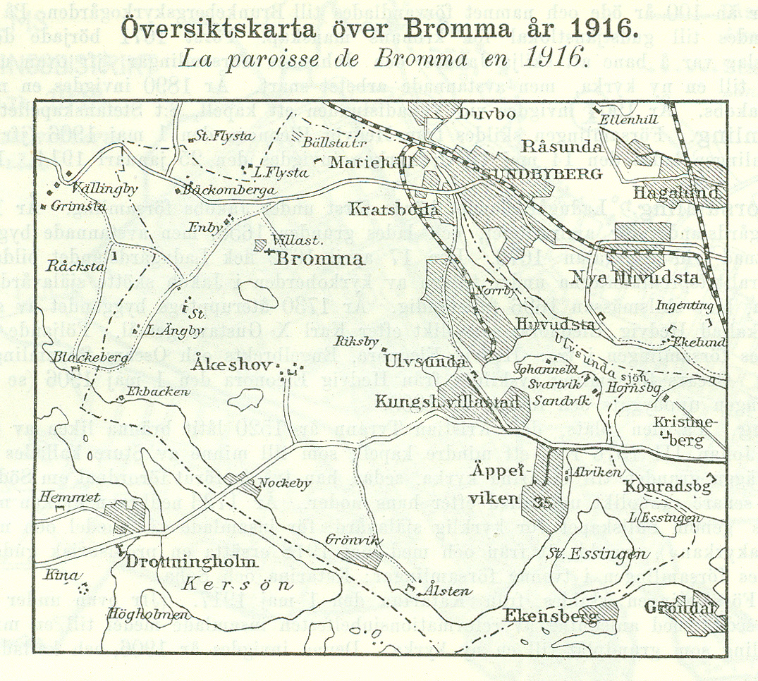 Map of Bromma 1916